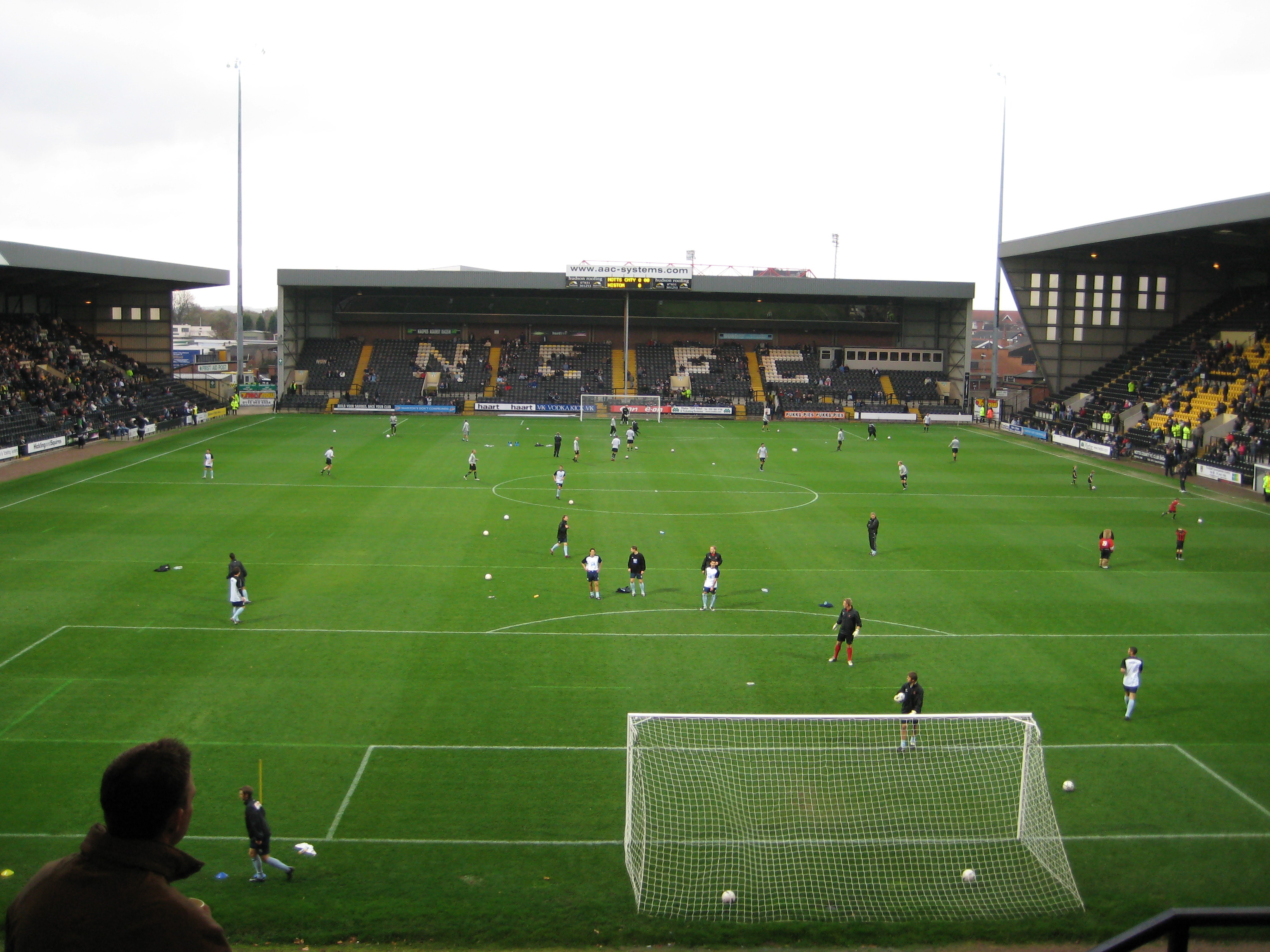 The view from the 'Kop Stand' at Notts County's ground in the match between Histon in the FA Cup. Jazza5 17:21, 12 November 2007 (UTC)